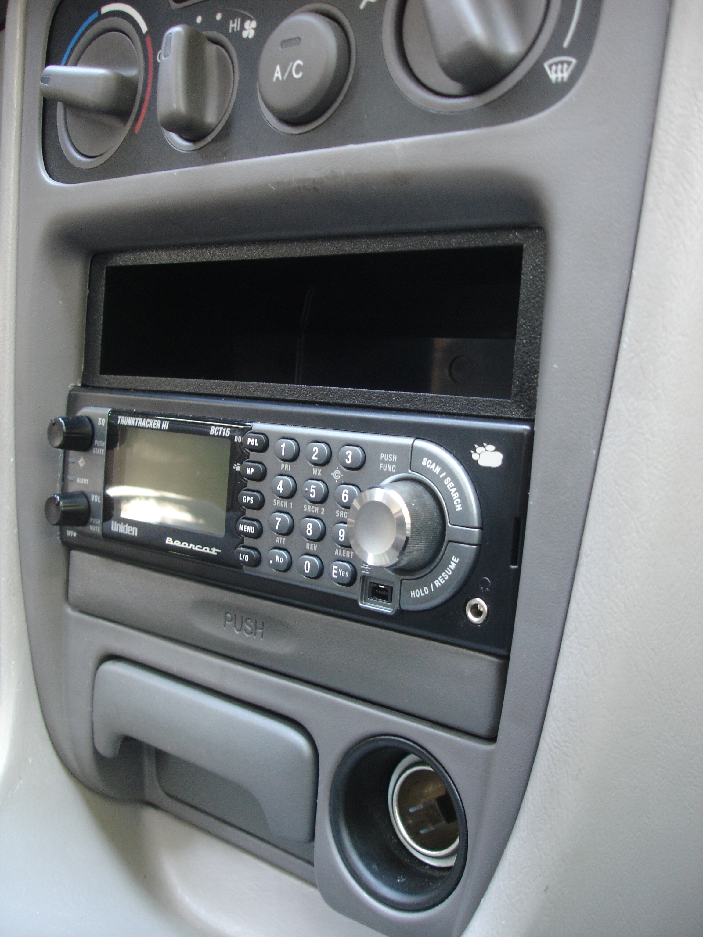 Uniden BCT-15 scanner installed into the ISO 7736 DIN size dash mount of a car. 1998-2002 Toyota Corolla E110/Geo/Chevrolet Prizm dash.